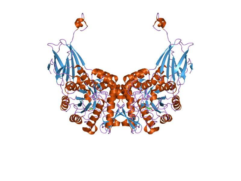 Cartoon representation of the molecular structure of protein registered with 1px8 code.